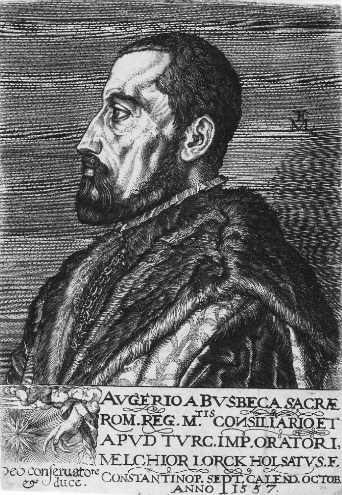 Portrait of Ogier Ghiselin de Busbecq (1522-1592)